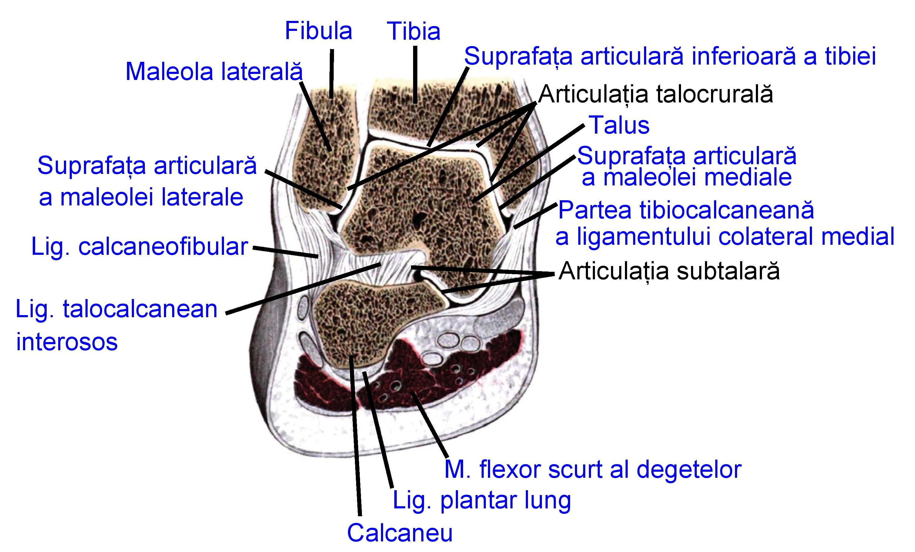 Ankle and talotarsal joint, frontal section.